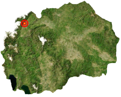 Location of Tetovo city in the Republic of Macedonia